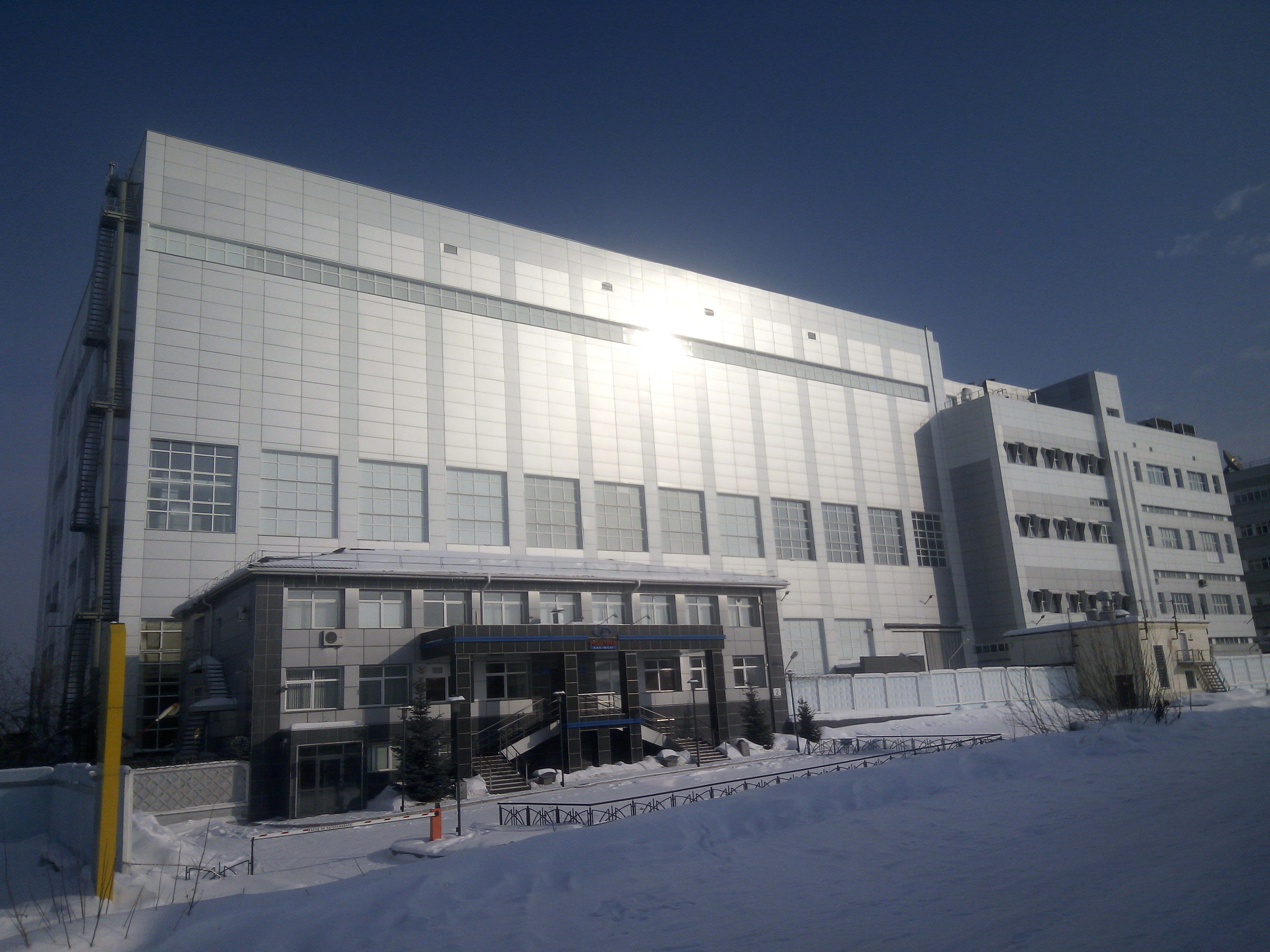 "Information Satellite Systems Reshetnev" new building, Zheleznogorsk, Russia